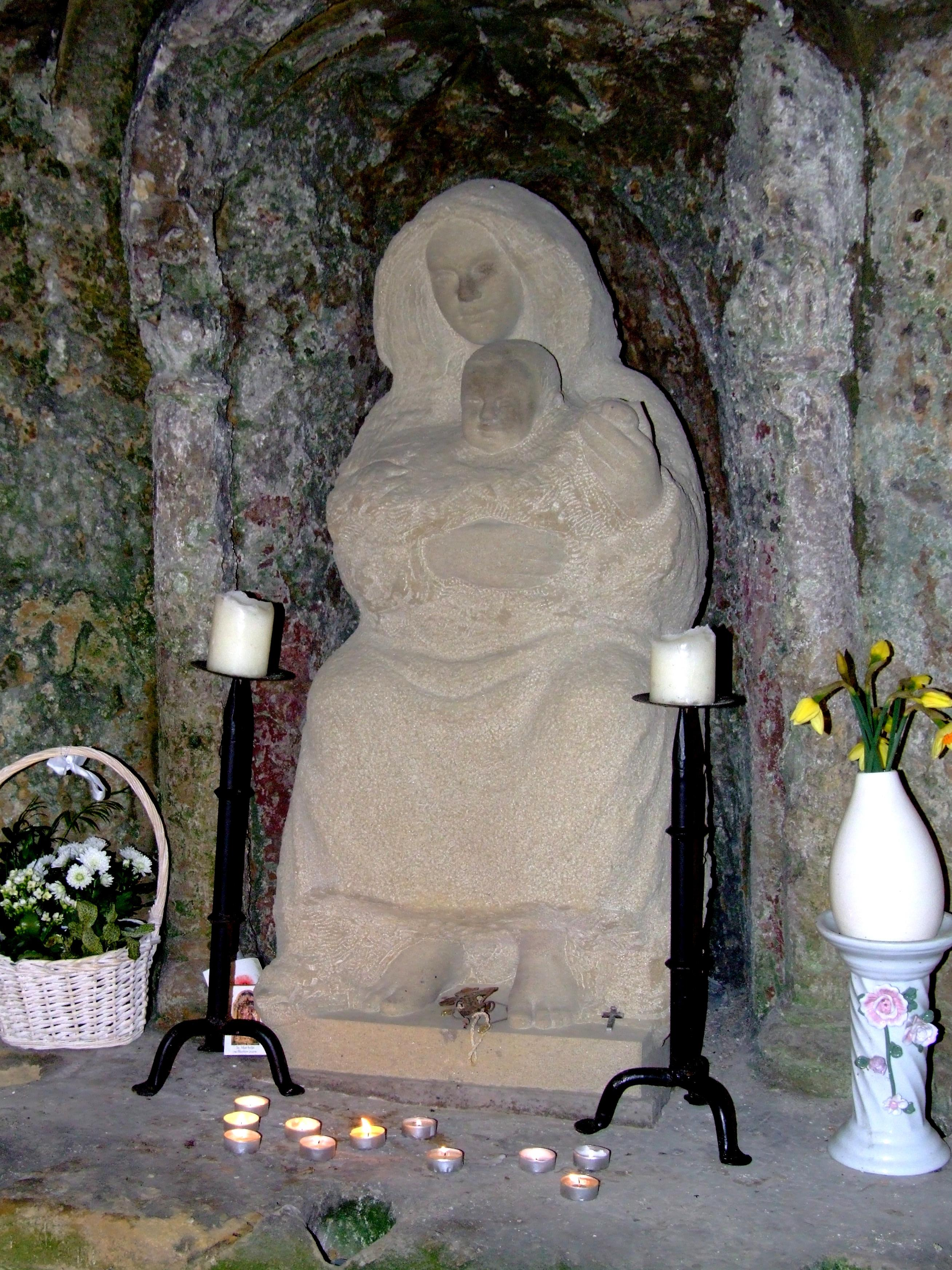 Inside the Chapel of Our Lady of the Crag, Knaresborough. Marian shrine established in 1408 by John the Mason. Statue was created in 2008 by local Yorkshire sculptor, Ian Judd.